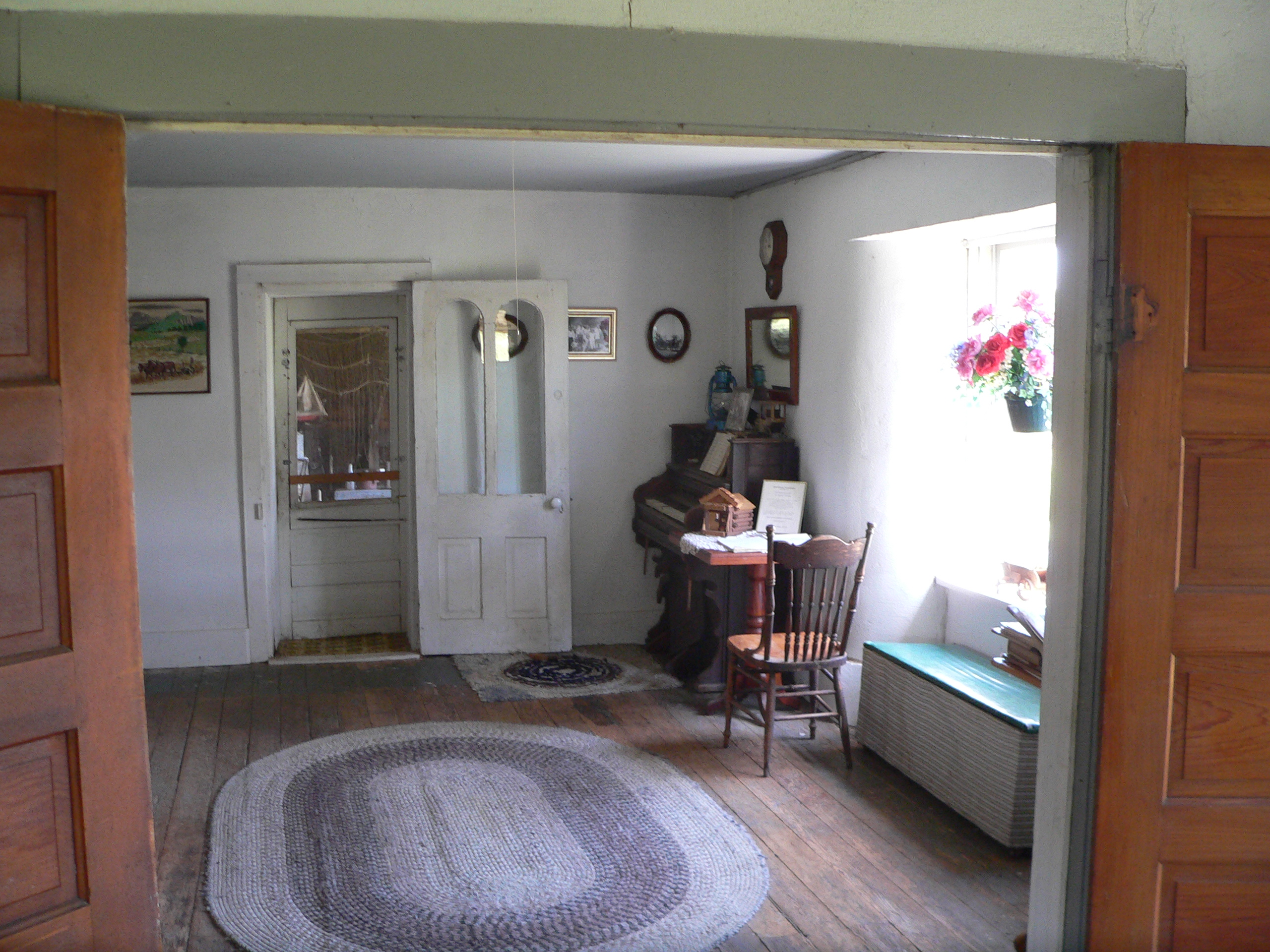 Interior of William R. Dowse House, located southwest of Comstock in Custer County, Nebraska. The sod house was built in 1900, and is listed in the National Register of Historic Places. It is now open as a museum. The photo was taken from the added back (west) room, through a doorway into the south-central room. The open door in the back wall leads to a recently-added enclosed porch; the exterior window at right faces south.